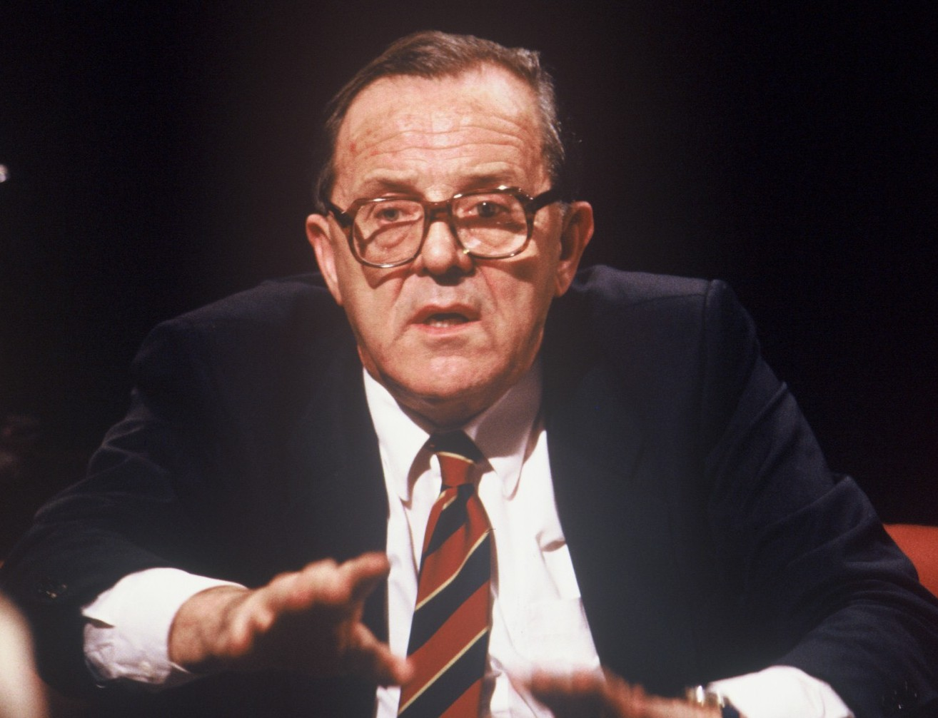 Merlyn Rees appearing on After Dark on 16 July 1988. Other guests included Robin Ramsay, Jock Kane, Robert Harbinson and H. Montgomery Hyde. More here.